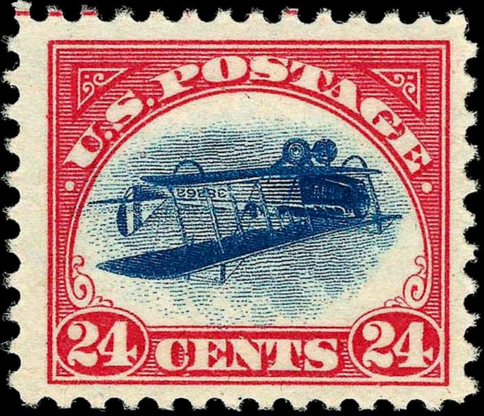 US Airmail stamp: Inverted Jenny Air Mail Issue of 1918, 24c